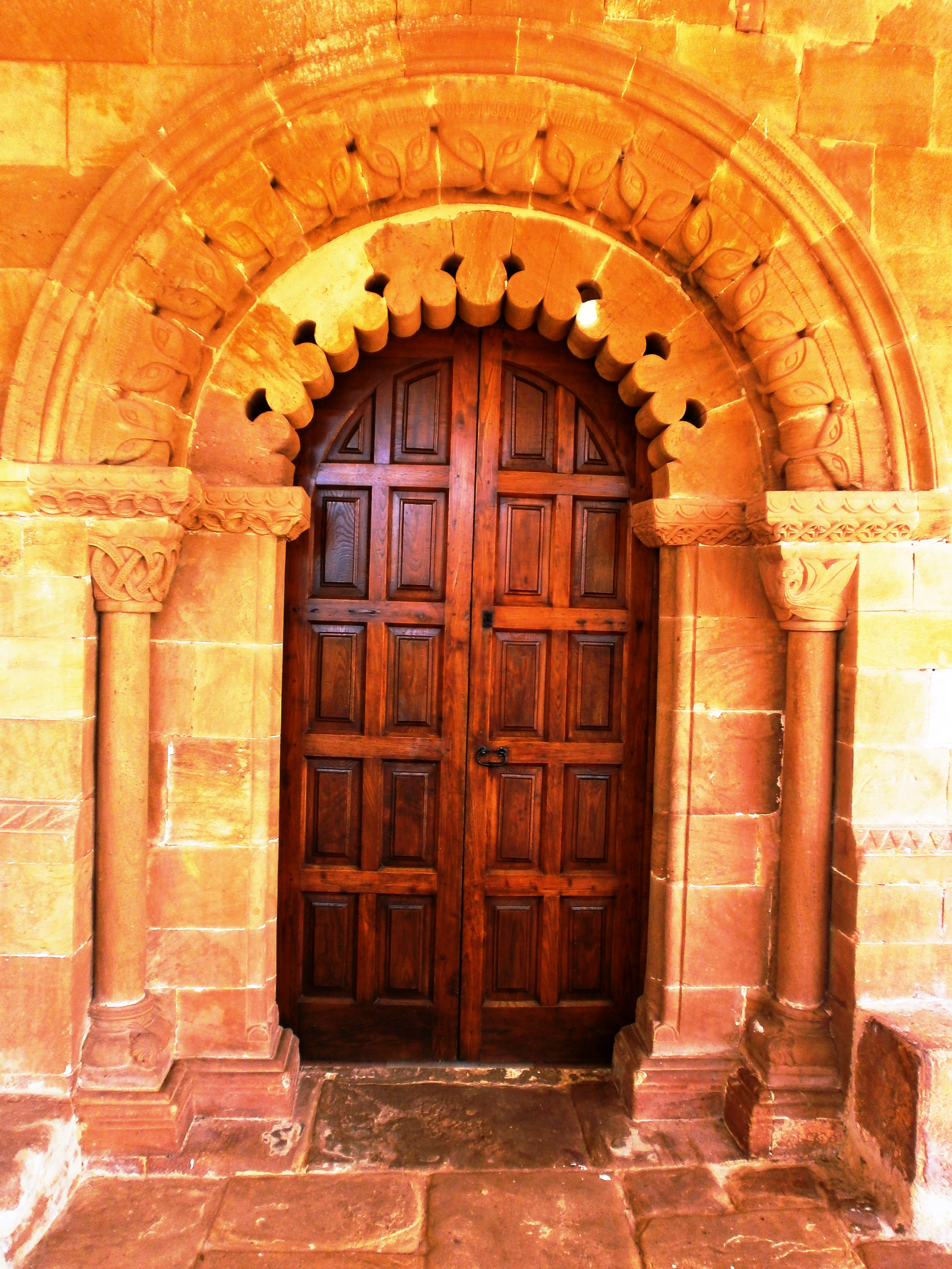 Lugas-Puerta lateral al sur